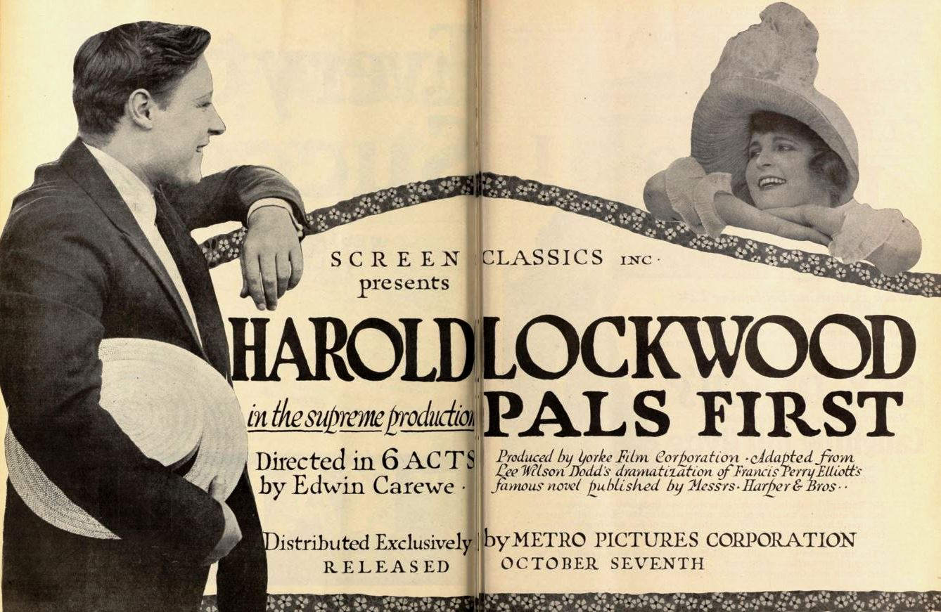 Advertisement for the American romance film Pals First (1918) with Harold Lockwood and Rubye De Remer, on pages 16 and 17 of the October 5, 1918 Exhibitors Herald.